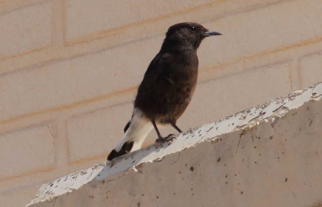 Black Wheatear Oenanthe leucura, Isla Plana, Spain.